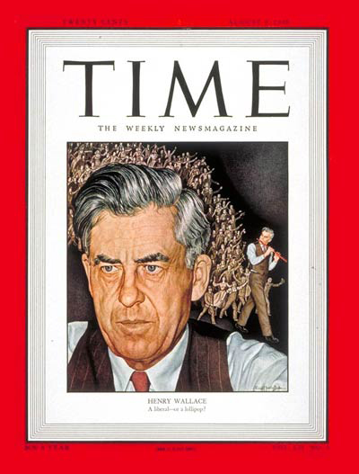 Time magazine, Volume 52 Issue 6. Front cover is an illustration of Henry Wallace.